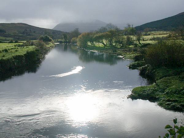 Picture of Reelin River